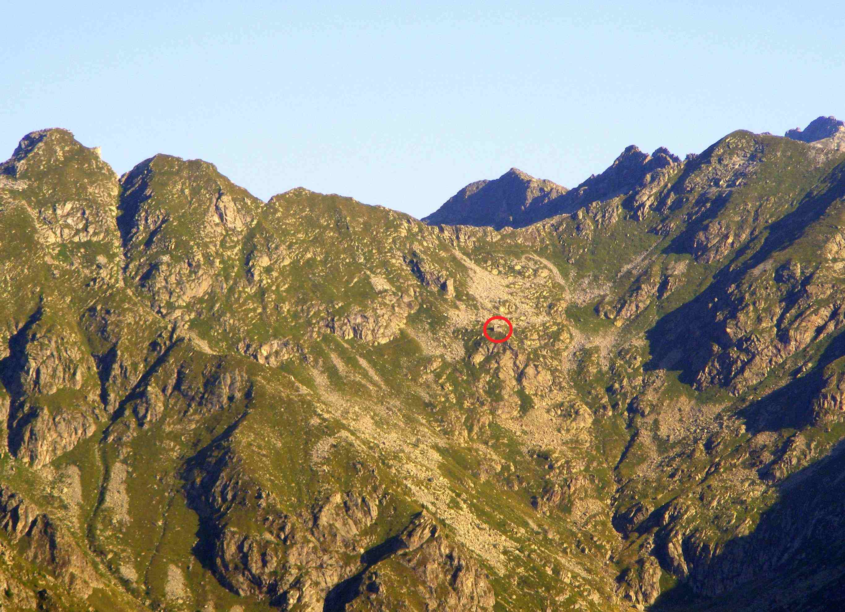 Rivetti mountain hutt location as seen from Monte Mazzaro (BI, Italy)